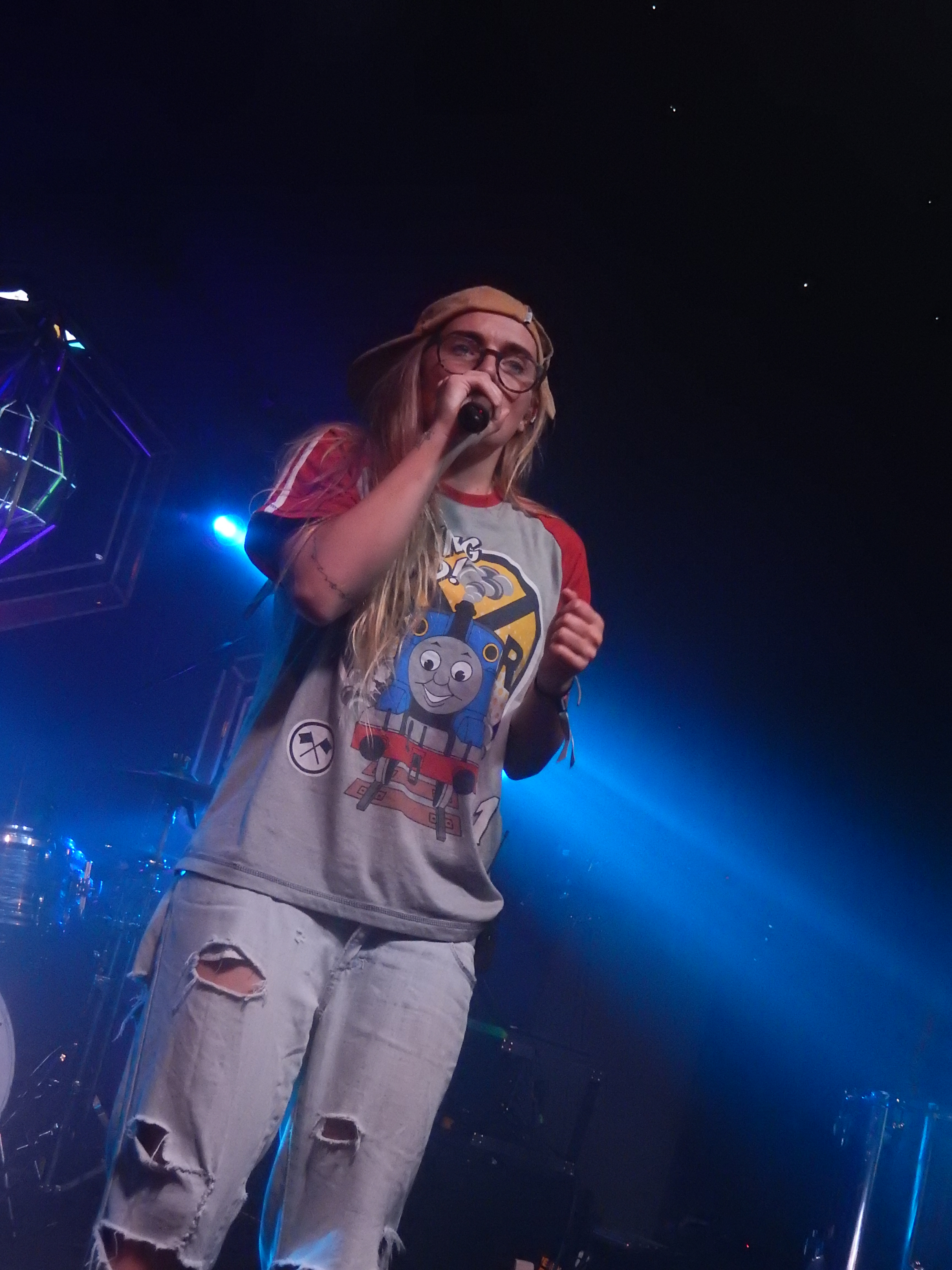 G Flip, Beach House, Brighton (Great Escape 2018)